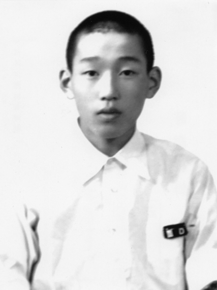 Kenji Kimihara